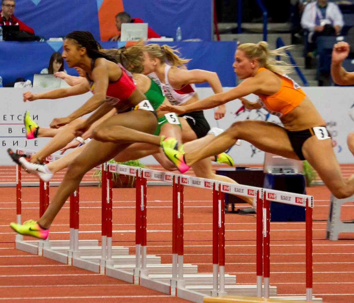 _010 pent 60mH thiam